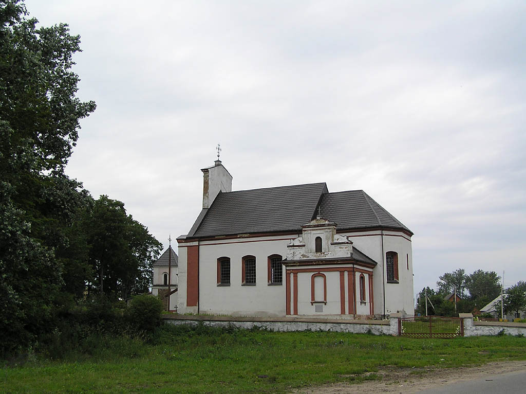 Hieraniony Church (1529, rebuilt 1770s)